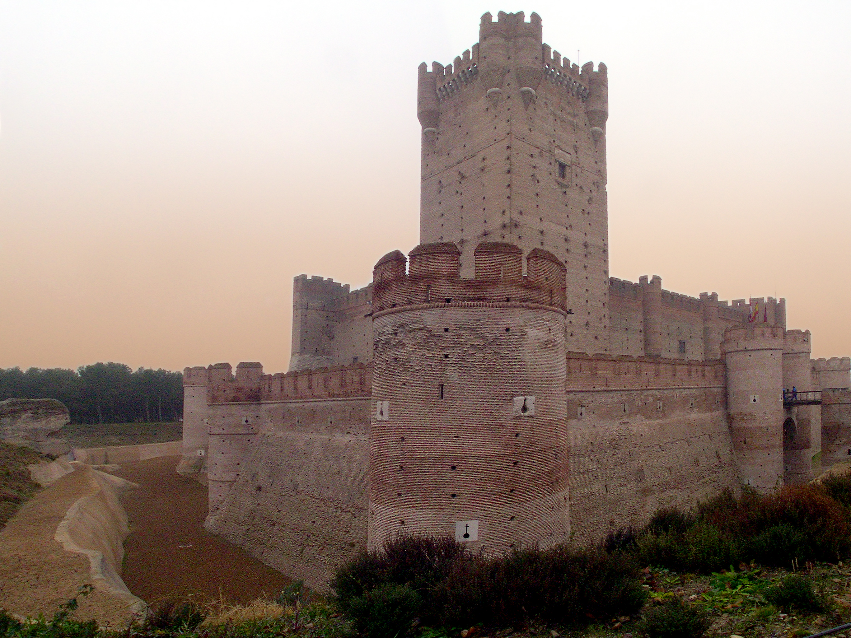 The Mota Castle in Medina del Campo (Valladolid, Spain). The word “Mota” refers to an artificial mountain built to defend the castle better, this mound was called in early